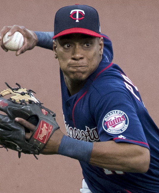 Jorge Polanco fielding a ground ball